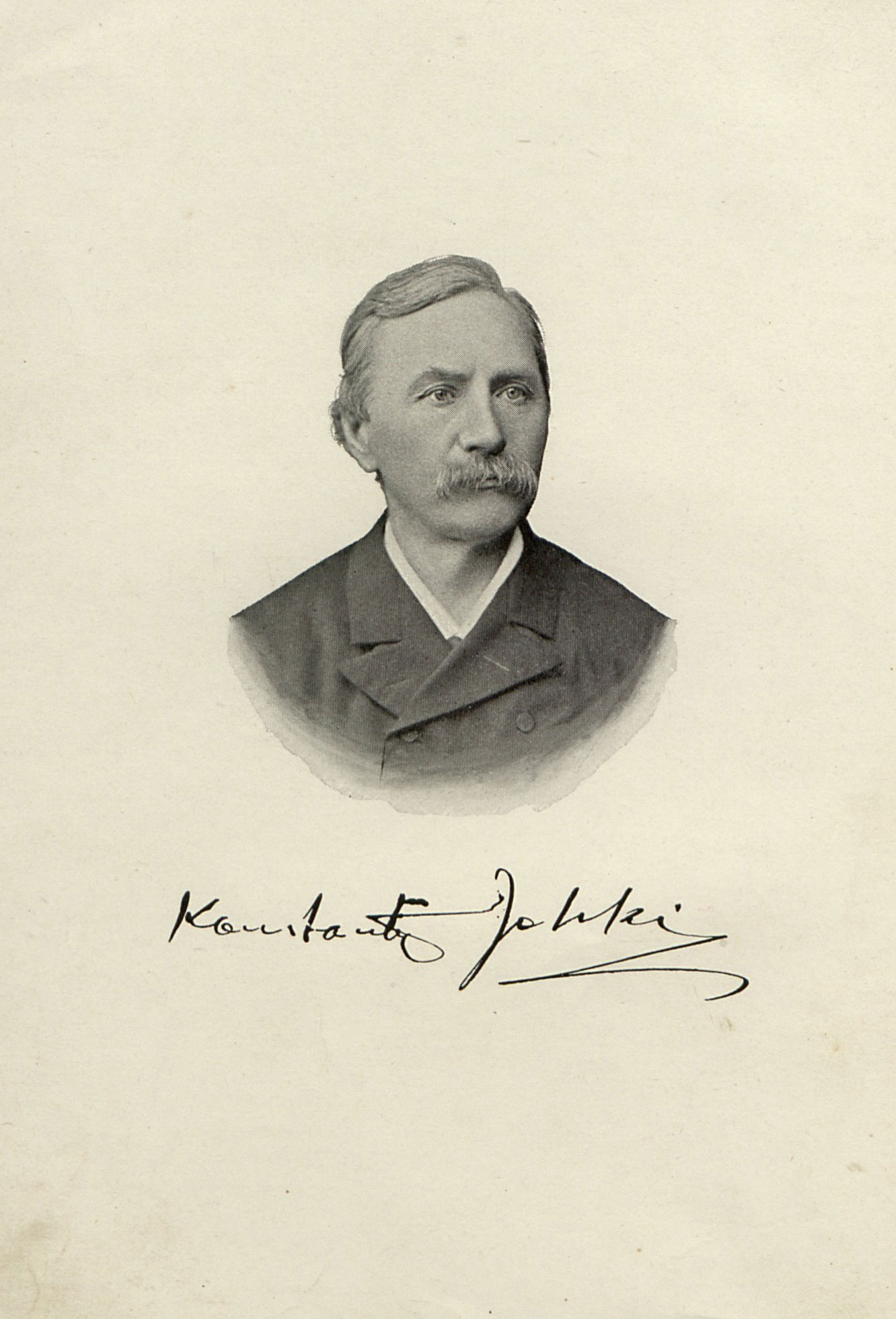 Konstanty Jelski - Polish explorer, zoologist, ornithologist